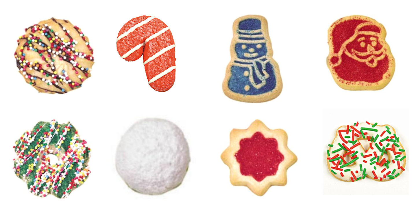 Christmas cookies (Left to right, top to bottom : Eggnog cookie, Candy cane cookie, Snowman cookie, Vanilla Santa, Shortbread Wreath, Pfeffernuss, Cherry snowflake and Holiday pretzel)